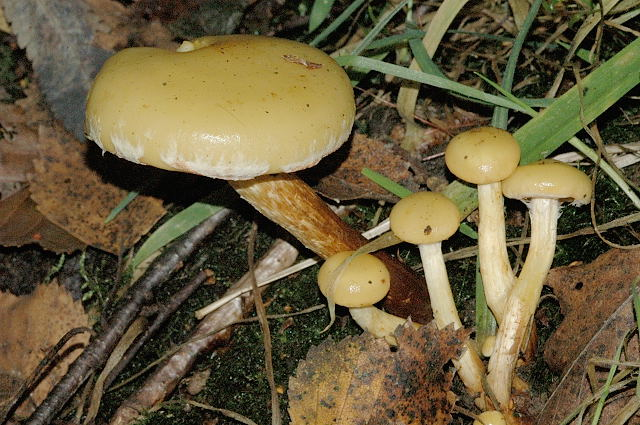 Pholiota alnicola from Commanster, Belgium. The determination of the species shown in this picture has been verified.